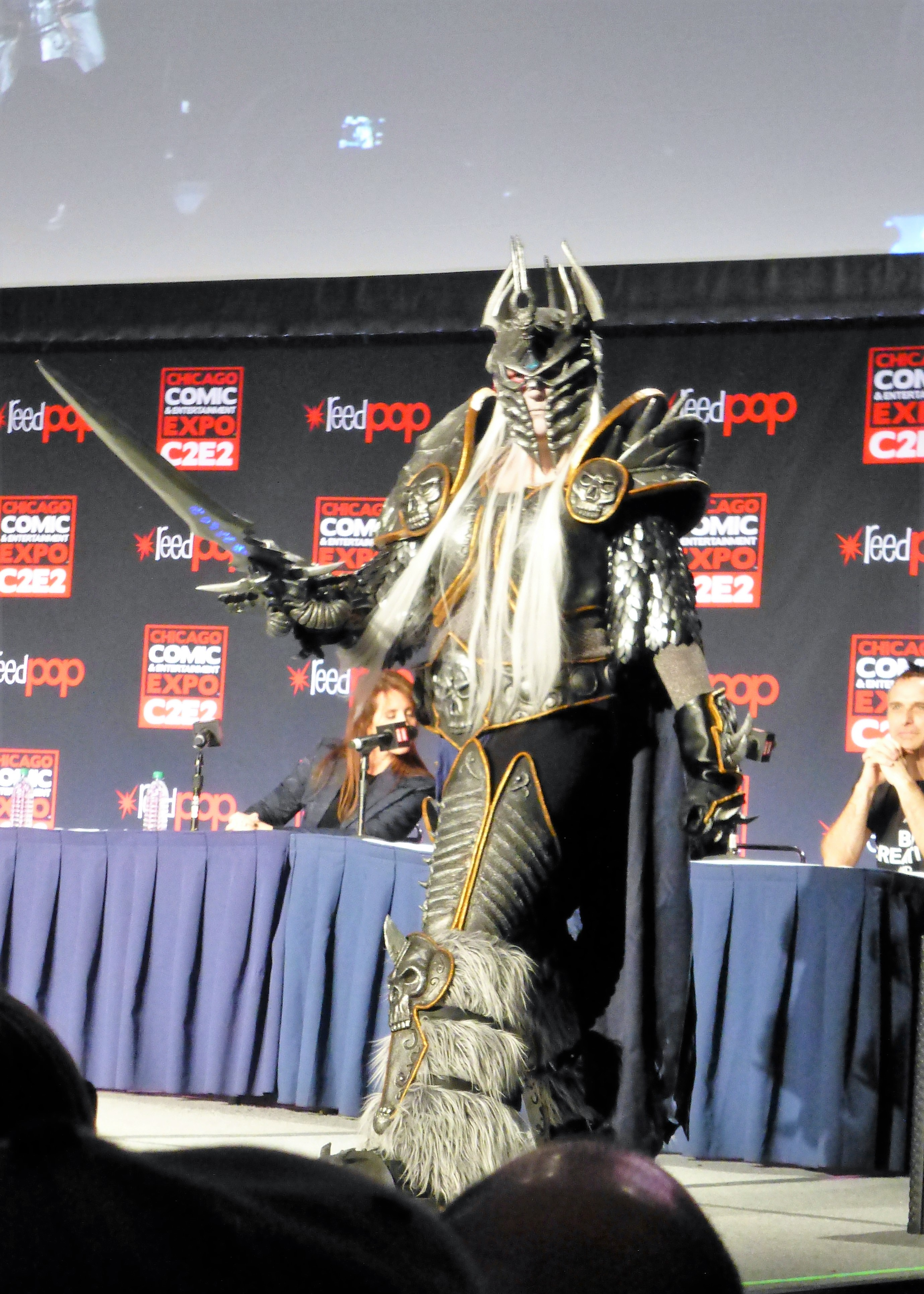 Erin Hannah of The Foam Corps cosplay team as Arthas the Lich King (from the Warcraft franchise) in the Third Annual ReedPOP Crown Championships of Cosplay held at Chicago Comic & Entertainment Expo (C2E2) 2016.